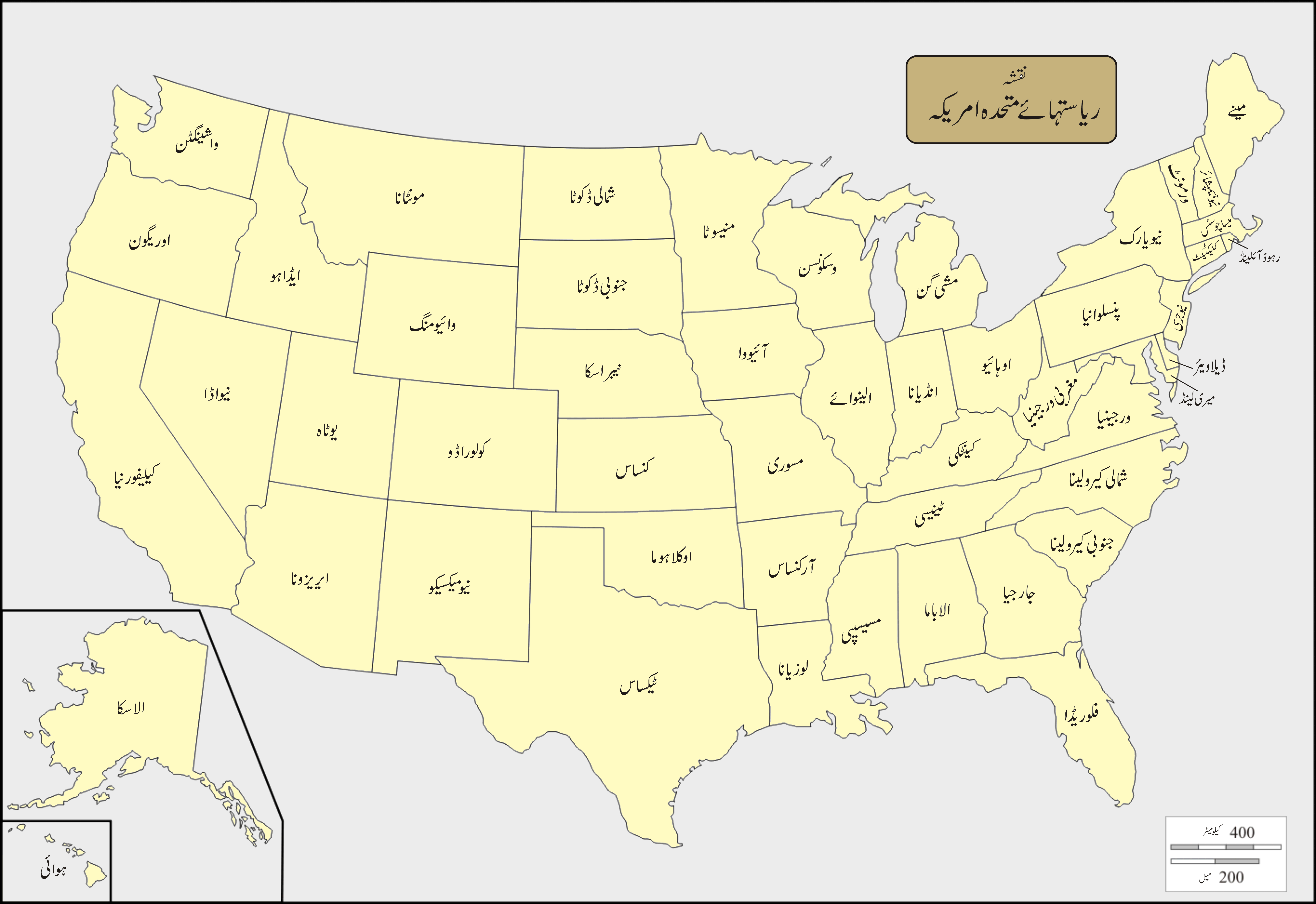 USA Urdu